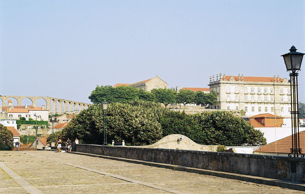 Convent of Santa Clara in Vila do Conde